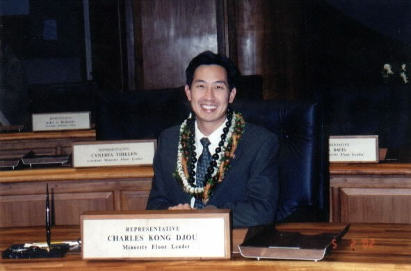 Representative Djou